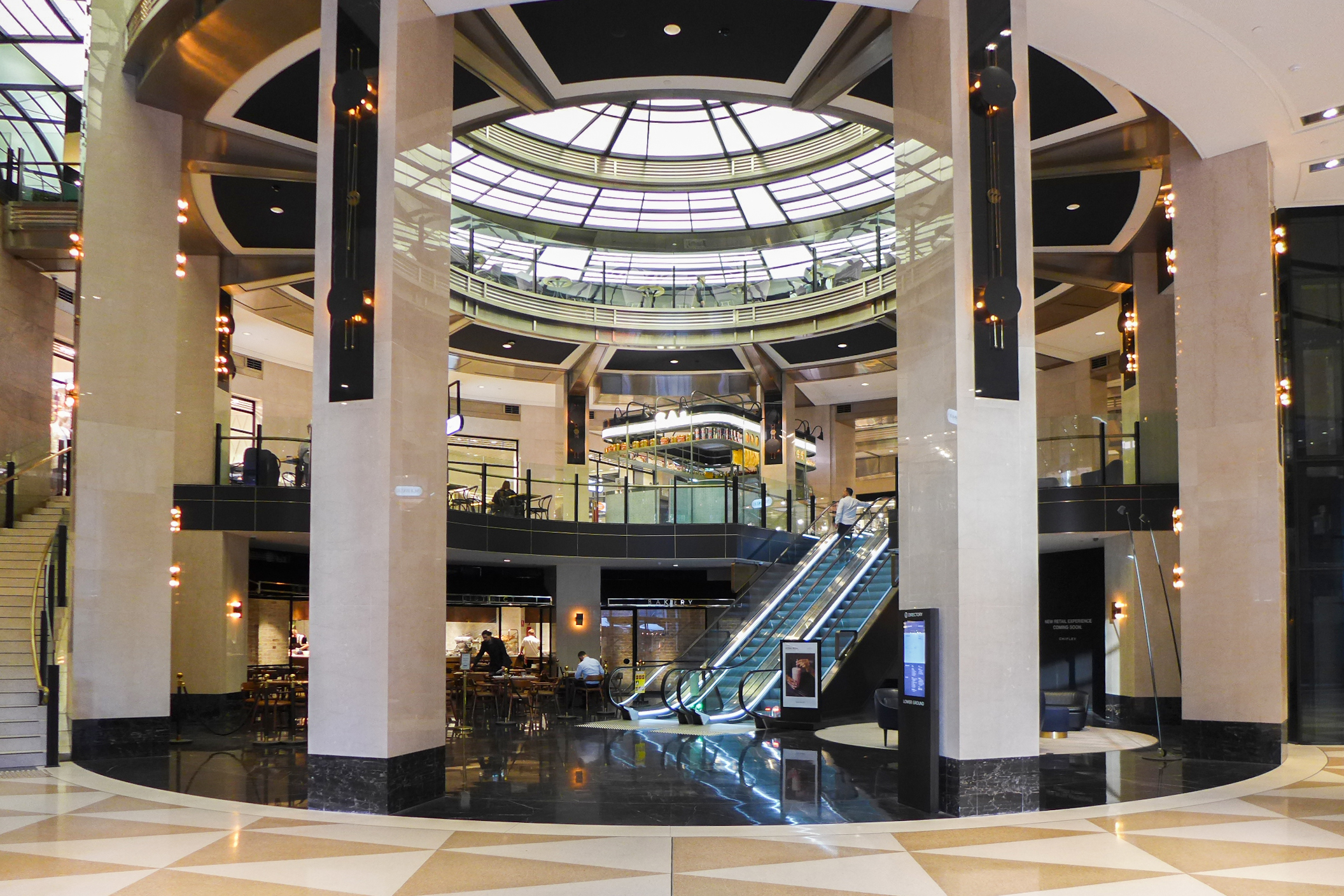 Chifley Tower Entrance Void